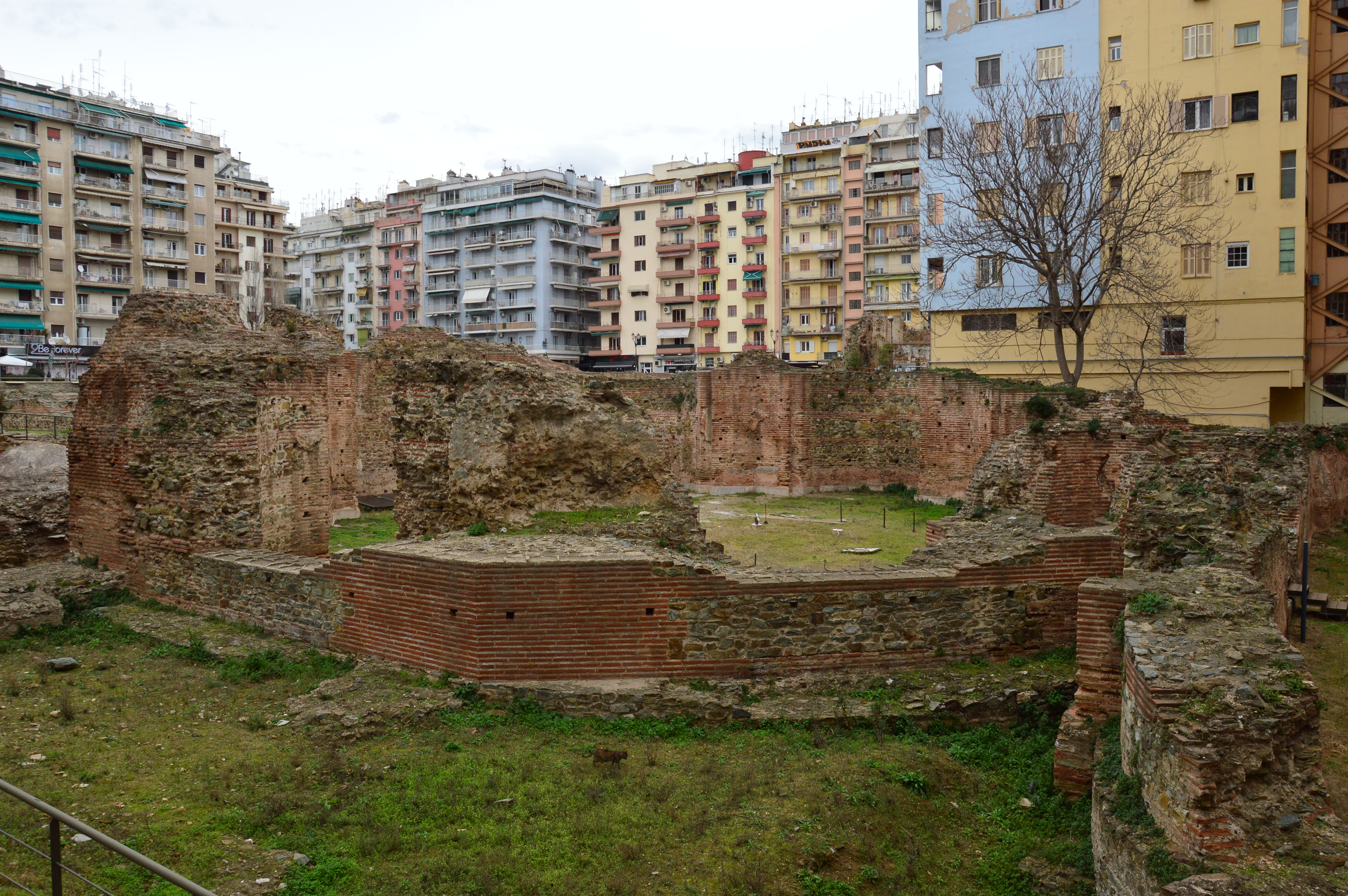 Part of the Palace of Galerius, in the centre of Thessaloniki, Greece; the Octagon seen from south-west.